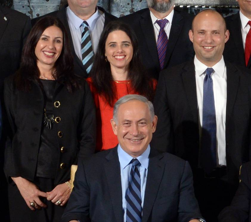 ממשלת ישראל ה-34 במעמד נשיא מדינת ישראל ראובן ריבלין וראש הממשלה בנימין נתניהו